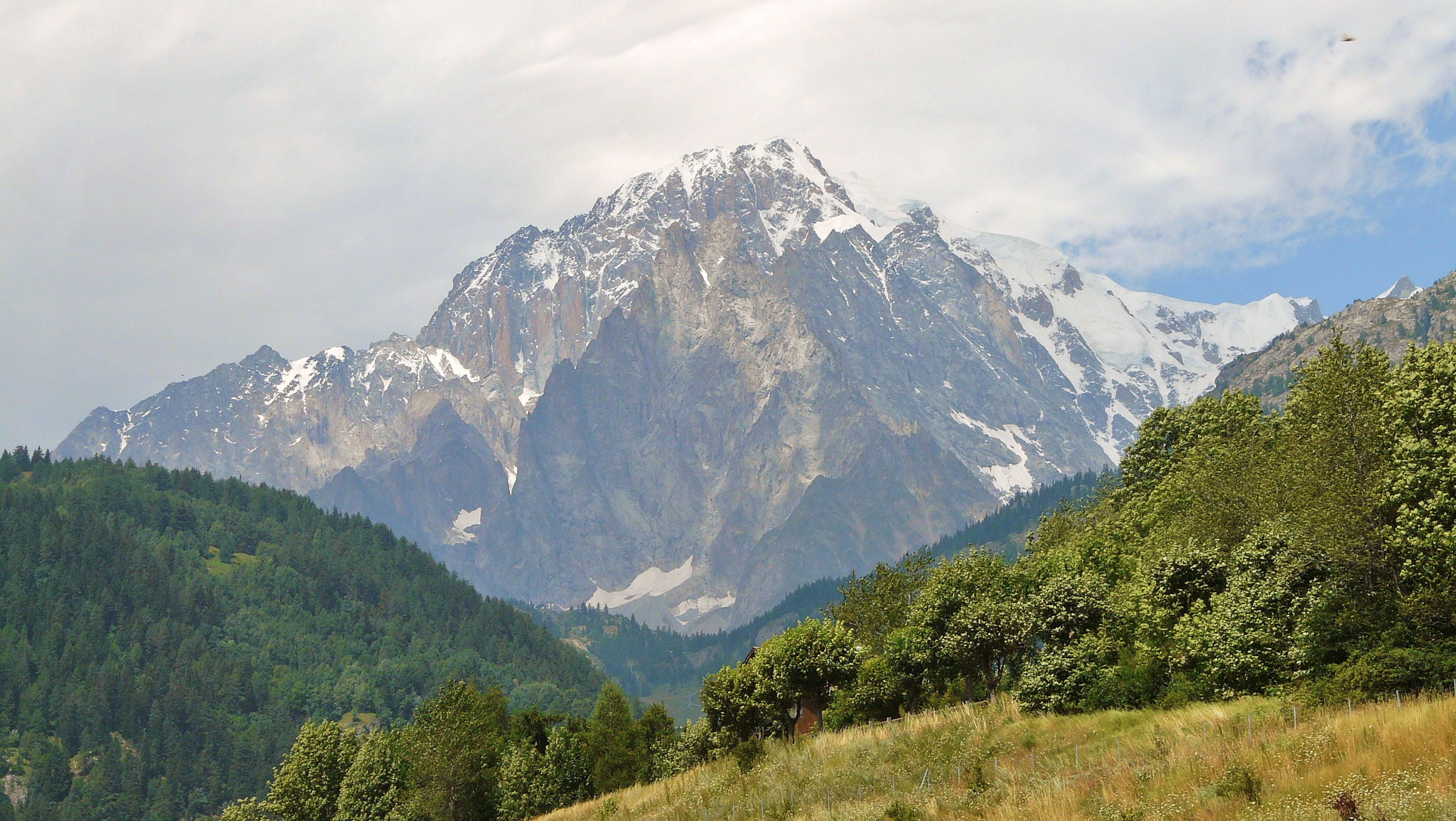 Mont Blanc as seen from Aosta Valley in 2009 July.